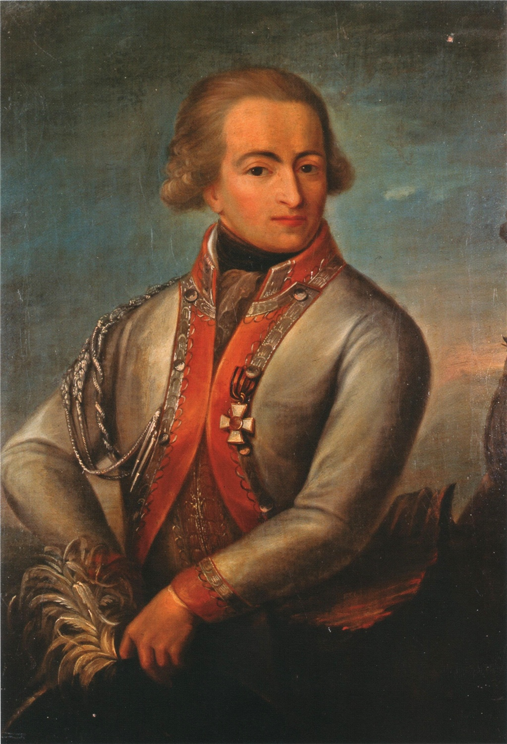 Menshikov, Sergey Aleksandrovich.